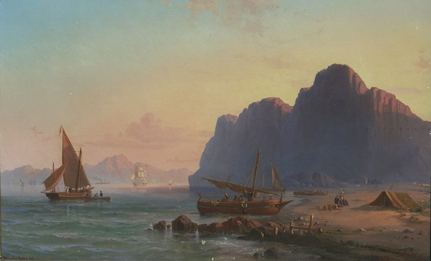 Coastal scene with fishing and other boats off Gibraltar with some figures shown in the foreground